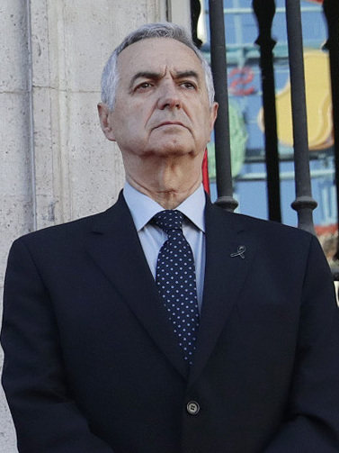 Hoy ha sido un día para el recuerdo, un día triste, pero necesario para que nunca olvidemos. Hemos depositamos una corona de laurel ante la placa que recuerda a las víctimas del #11M en la Real Casa de Correos, luego en Atocha acompañando a UGT, CCOO, la unión de actores y la asociación del 11M en el acto conmemorativo. Posteriormente en el Bosque del recuerdo en el acto de conmemoración del Día Europeo de las Victimas del Terrorismo que organiza la Asociación de Víctimas del Terrorismo cada 11M. Por ultimo he acudido a Santa Eugenia con la Asociación de Vecinos La Colmena y al Pozo con la asociación de Vecinos del Pozo del Tio Raimundo. NoOlvidamos